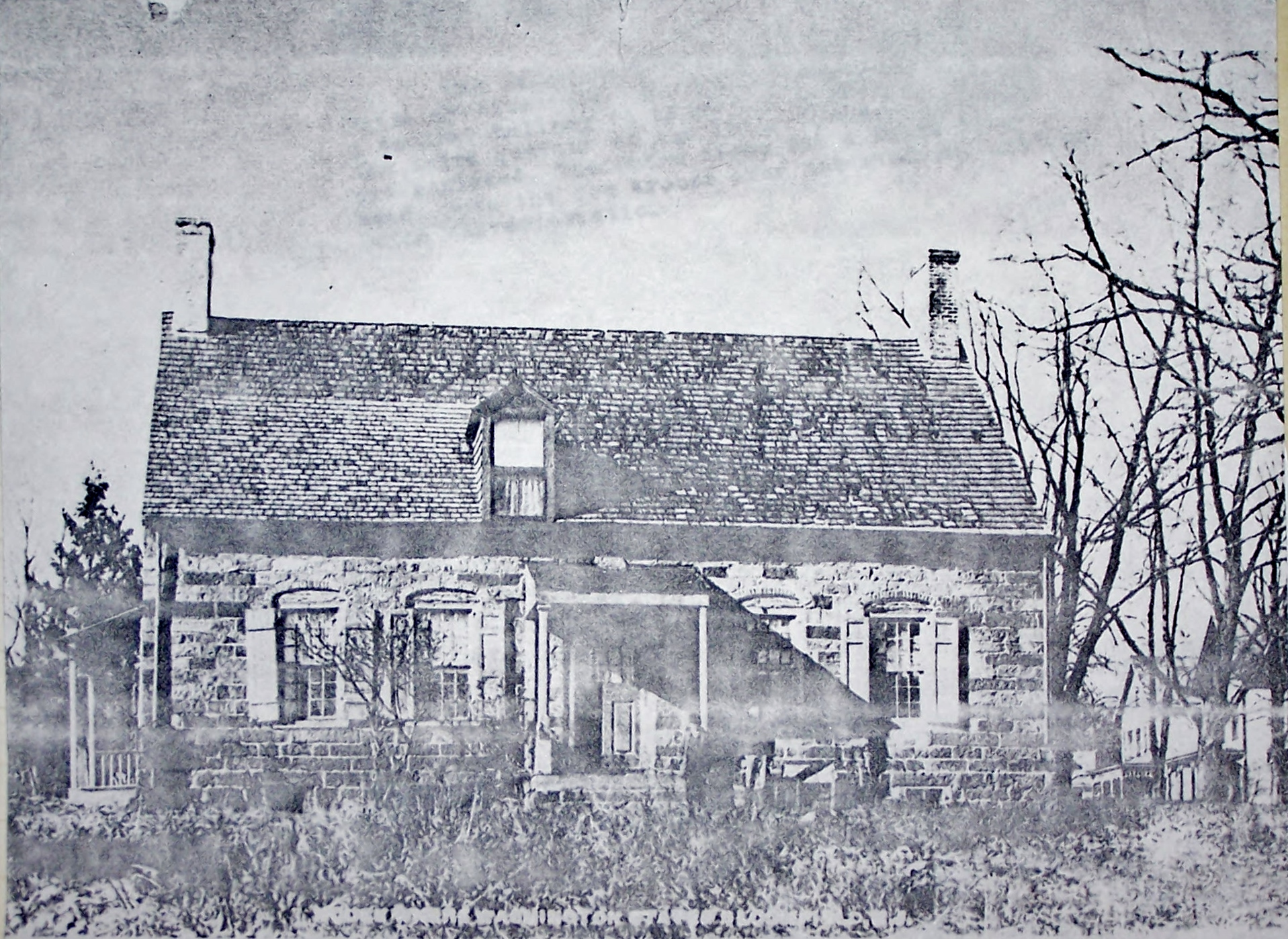 Front of original Cadmus House